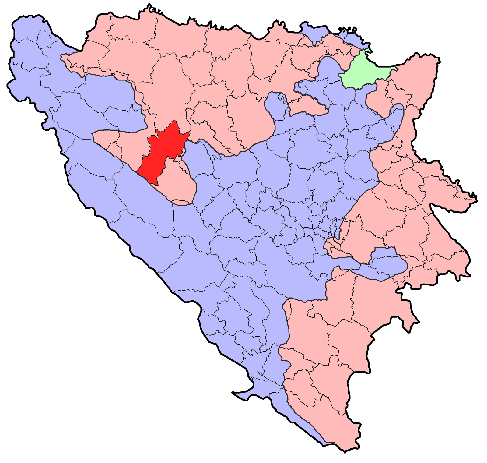 Location of Mrkonjić Grad municipality in Bosnia and Herzegovina.